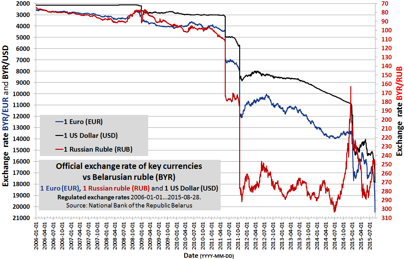 Graph of the official exchange rate of the Belarusian ruble (BYR) vs key foreign currencies, in 2006-01-01...2014-12-17. US dollar (USD, used e.g. in trade of oil & natural gas), euro (EUR) and Russian ruble (RUB) are the three most important foreign currencies used in the Belarusian economy. The exchange rate shown is that available from the National Bank of the Republic of Belarus ( Note the two strong devaluations in 2011: seen in May 24, 2011 and in October 21, 2011 (devaluation occurred day earlier). Newer devaluation BYR has occured both in Dec 2014-Jan 2015 and in late August 2015.